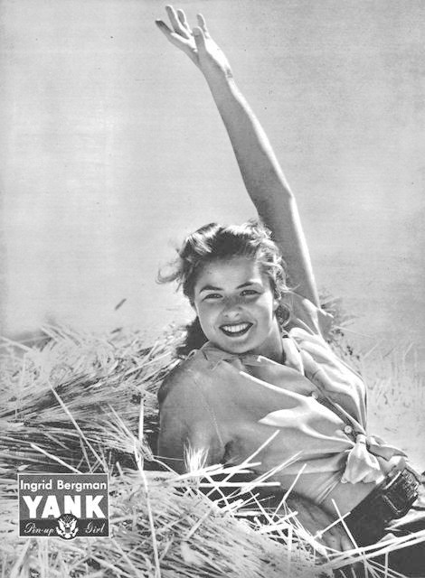 Pin-up photo of Ingrid Bergman for the March 16, 1945 issue of Yank, the Army Weekly, a weekly U.S. Army magazine fully staffed by enlisted men.